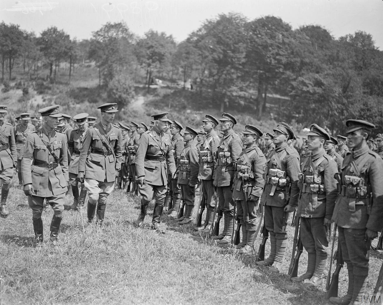 The Official Visits To the Western Front, 1914-1918 Prince Arthur, the Duke of Connaught, inspecting troops of the 2nd Battalion, King's Royal Rifle Corps, 2nd Brigade at Le Buissiere, near Bruay, 1 July 1918.